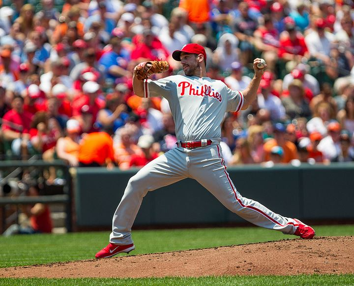 Lee pitching in a game on June 10, 2012